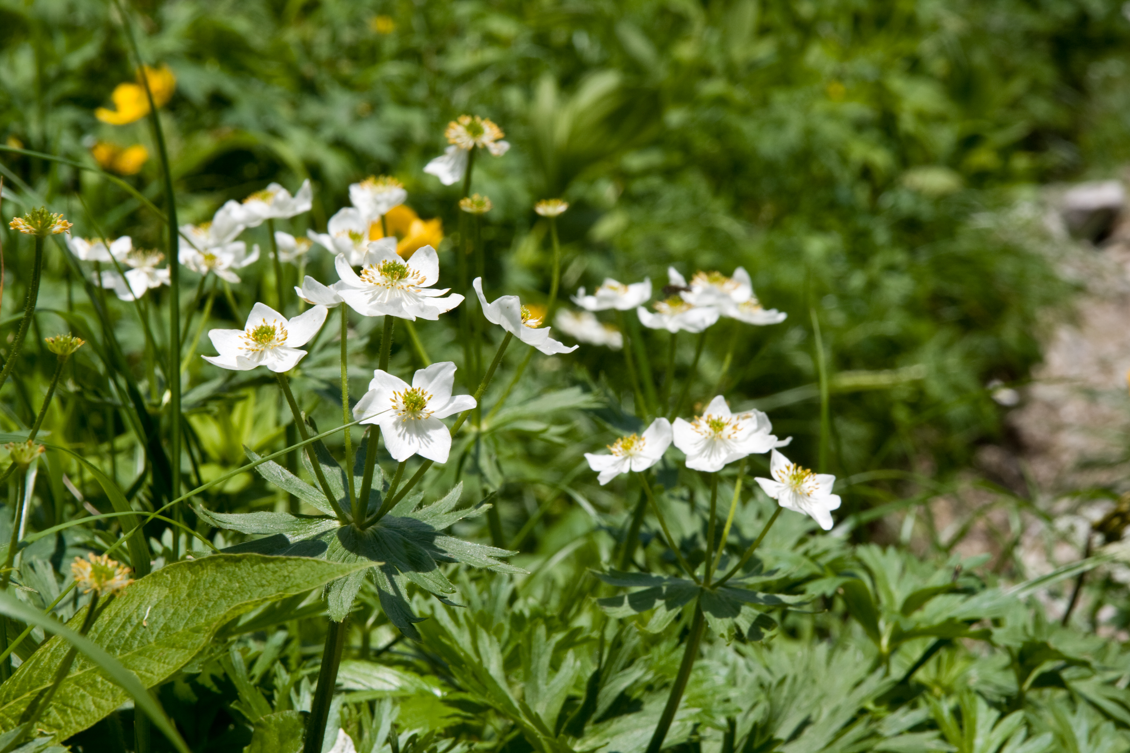 Anemone narcissiflora